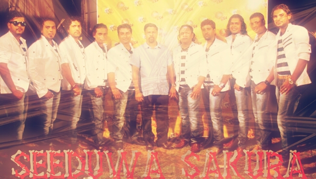 This is a group photograph of a Sri Lanka's most popular band called Seeduwa Sakura.